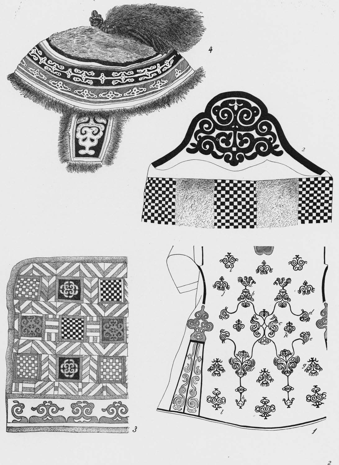 1. Woman's Silk-embroidered Coat. Tribe, Gold. (Nanai) 2. Tobacco-Pouch. Tribe, Tungus (Amgun River). 3. Design on Fish-skin Apron. Tribe, Tungus (Amgun River). 4. Hunter's Cap. Tribe, Gold.